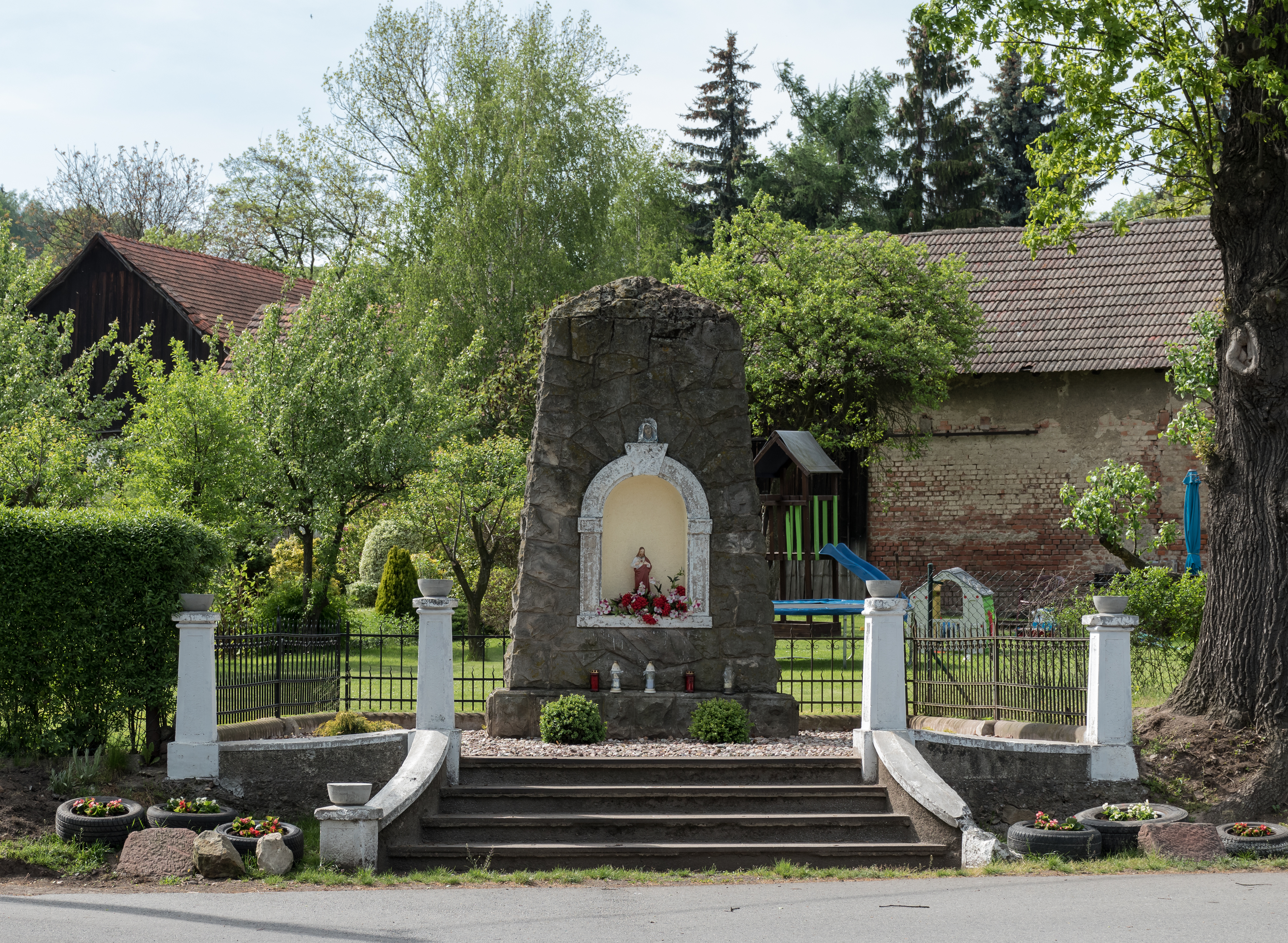 Roadside chapel in Ścinawica, former memorial to the victims of World War I